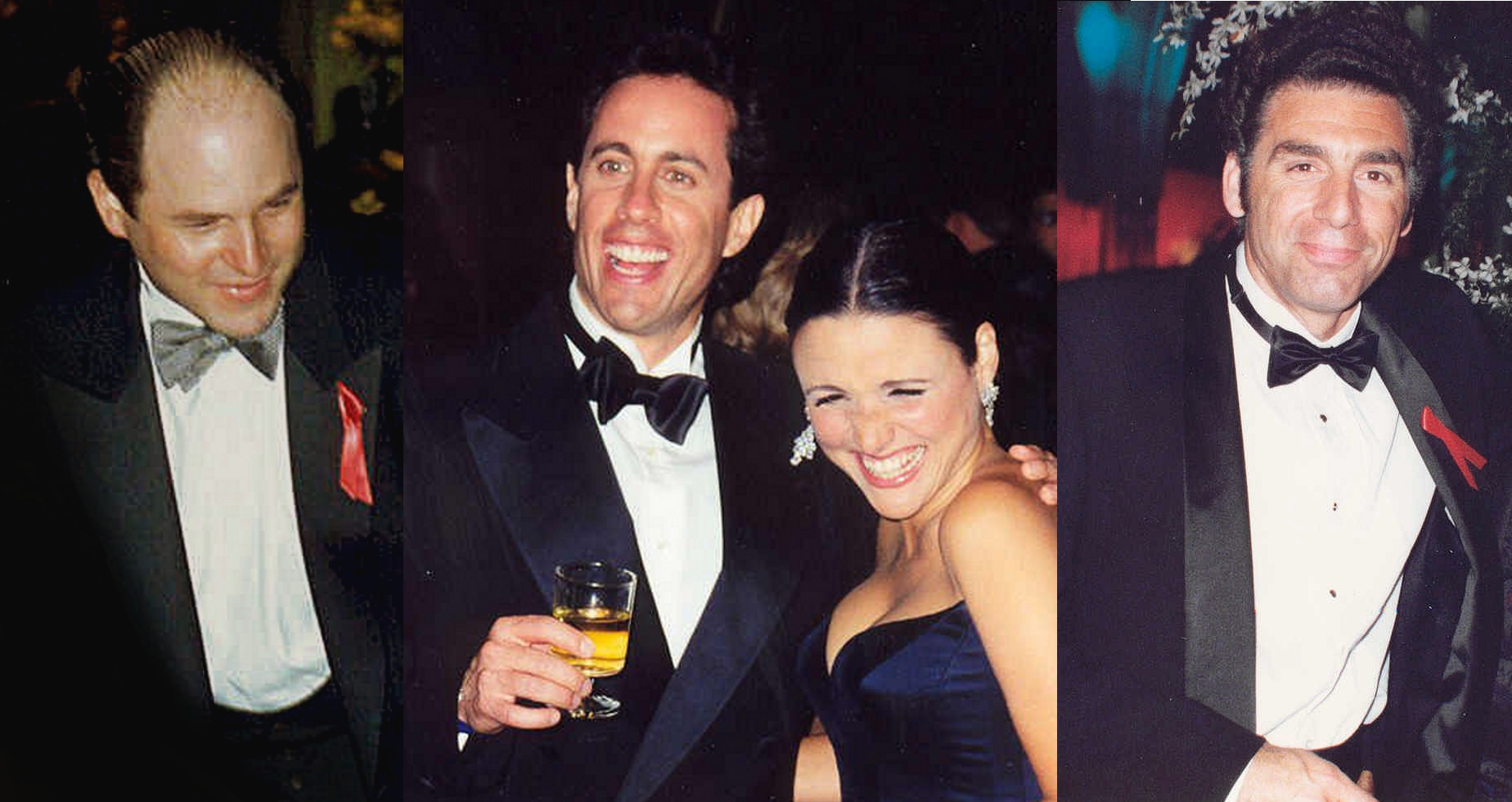 Montage of Seinfeld cast as they appear in the 1990s. From left to right: Jason Alexander at the 1992 Emmy Awards., Jerry Seinfeld and Julia Louis-Dreyfus at the 1997 Emmy Awards, Michael Richards at the 1993 Emmy Awards.